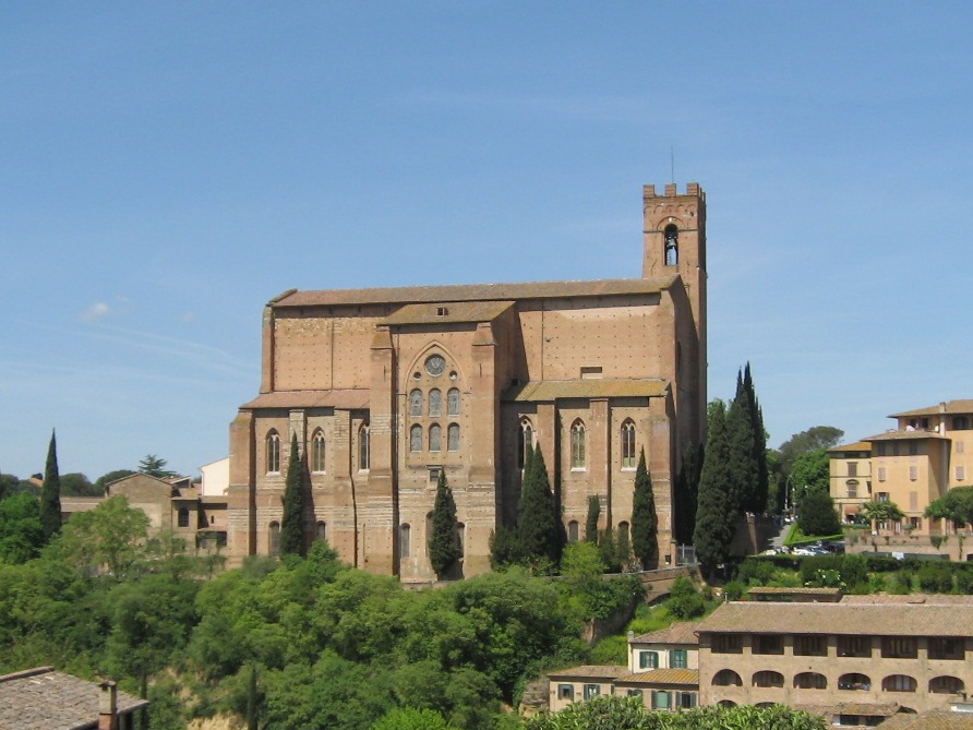 Exterior of the Basilica of San Domenico (Siena).